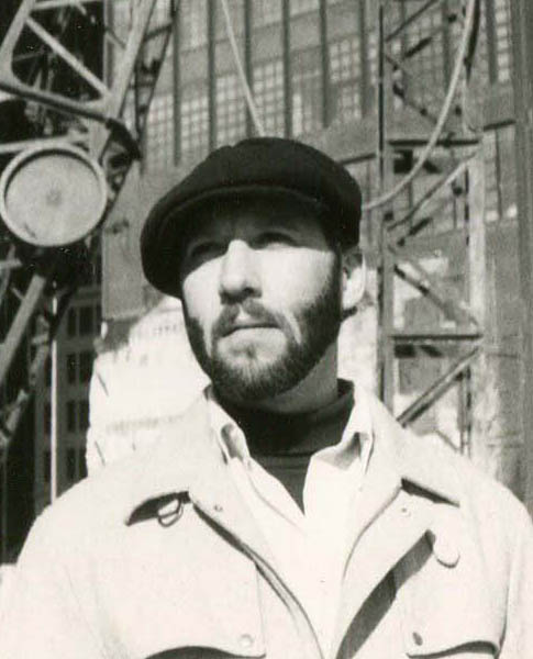 Comics creator Alan Weiss.